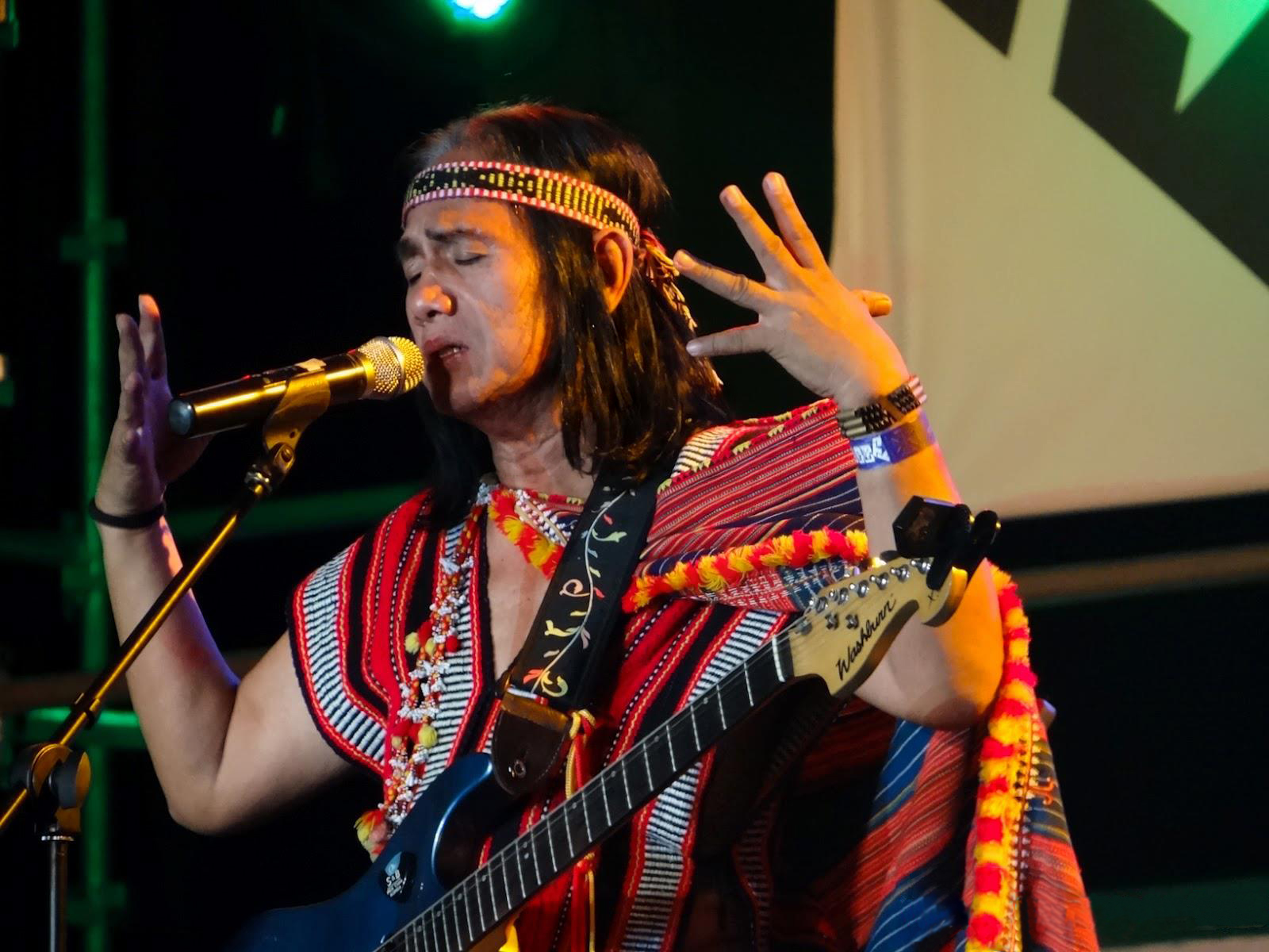 at DUTDUTAN XII